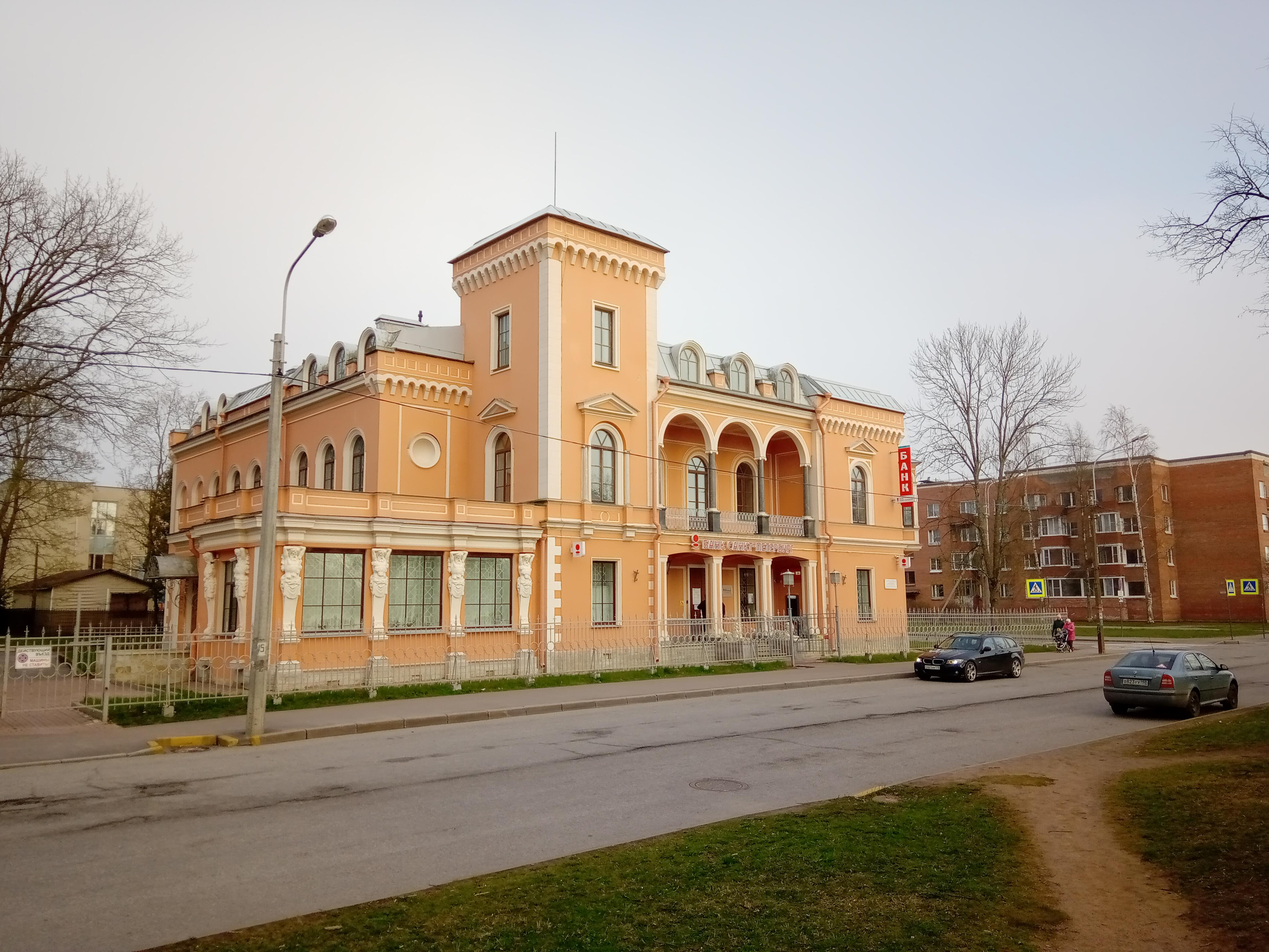 Bank Sank Peterburg Petergof branch